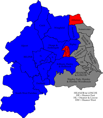 A map of the results of the 2007 Amber Valley Council election. Colour legend by wards won: Conservative party Labour party Wards in grey were not contested in 2007.